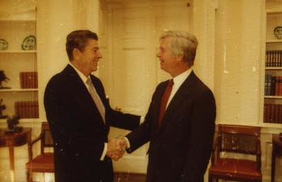 President Ronald Reagan meeting with Senator Thad Cochran